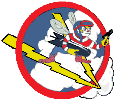 Emblem of the 485th Fighter Squadron (USAAF)